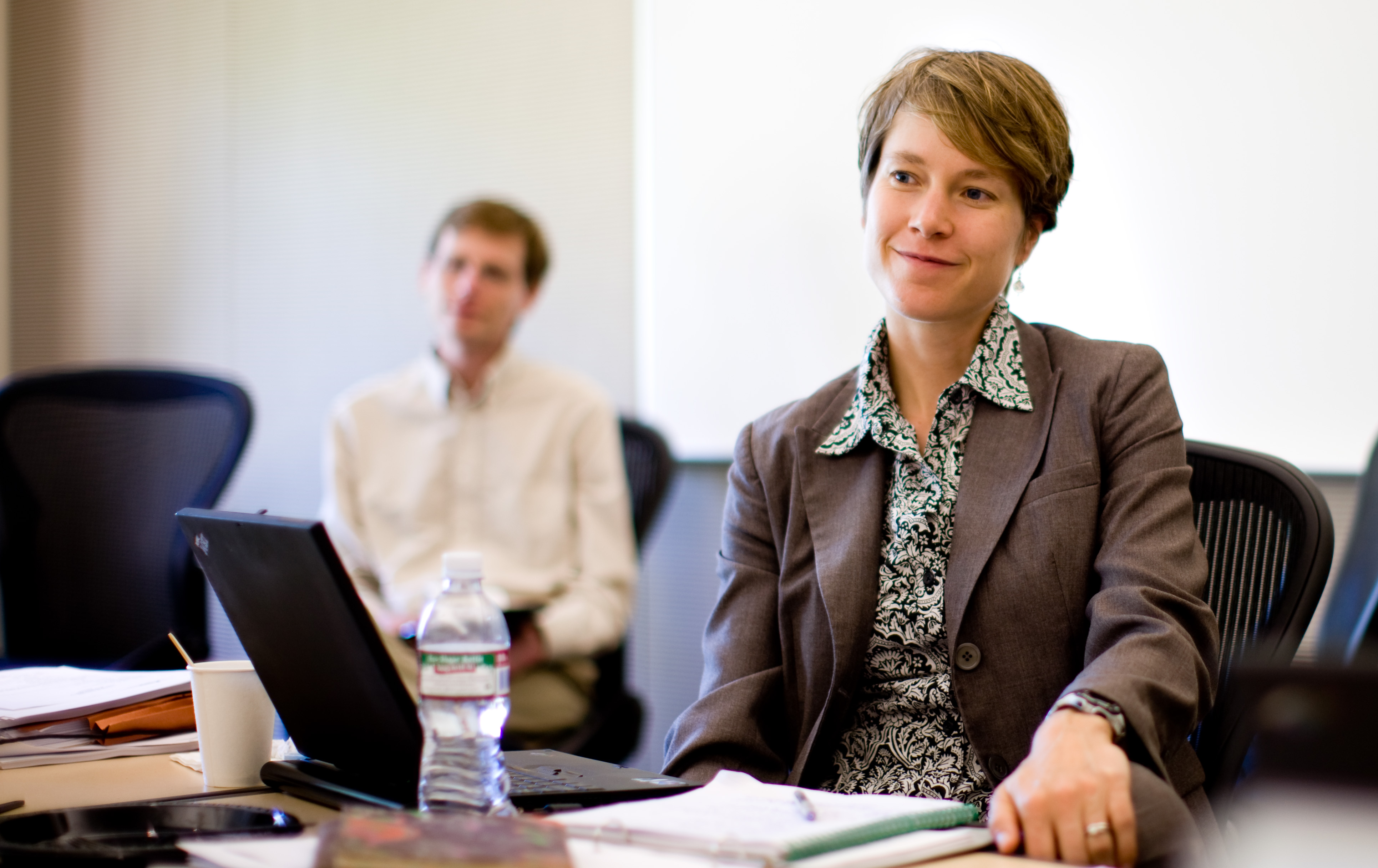 Image of Molly S. Van Houweling